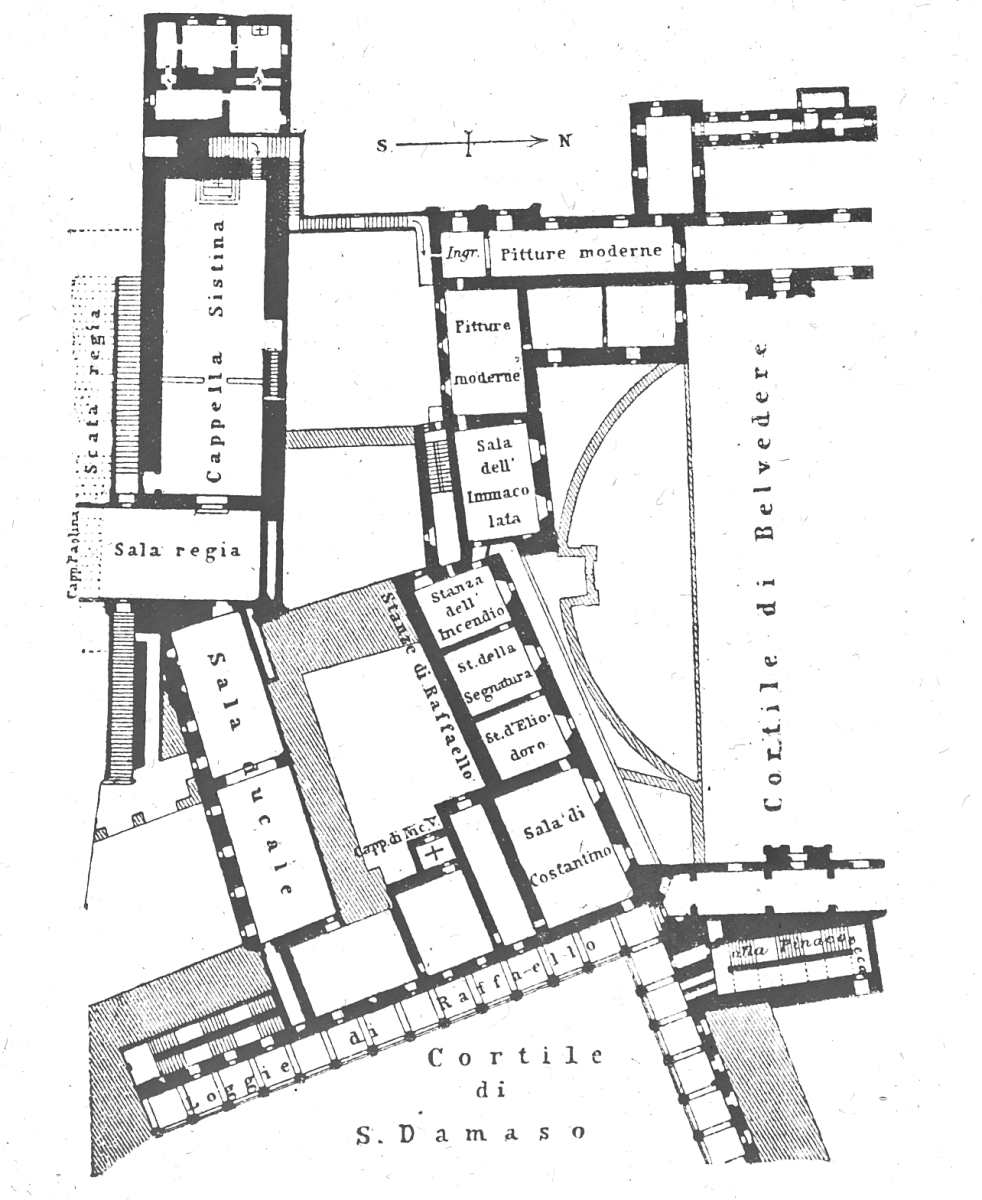 S. Peter, Rome, Italy. St. Peter's, ground plan for northern half of Vatican Palace. Brooklyn Museum Archives, Goodyear Archival Collection (S03_06_01_023 image 2996).